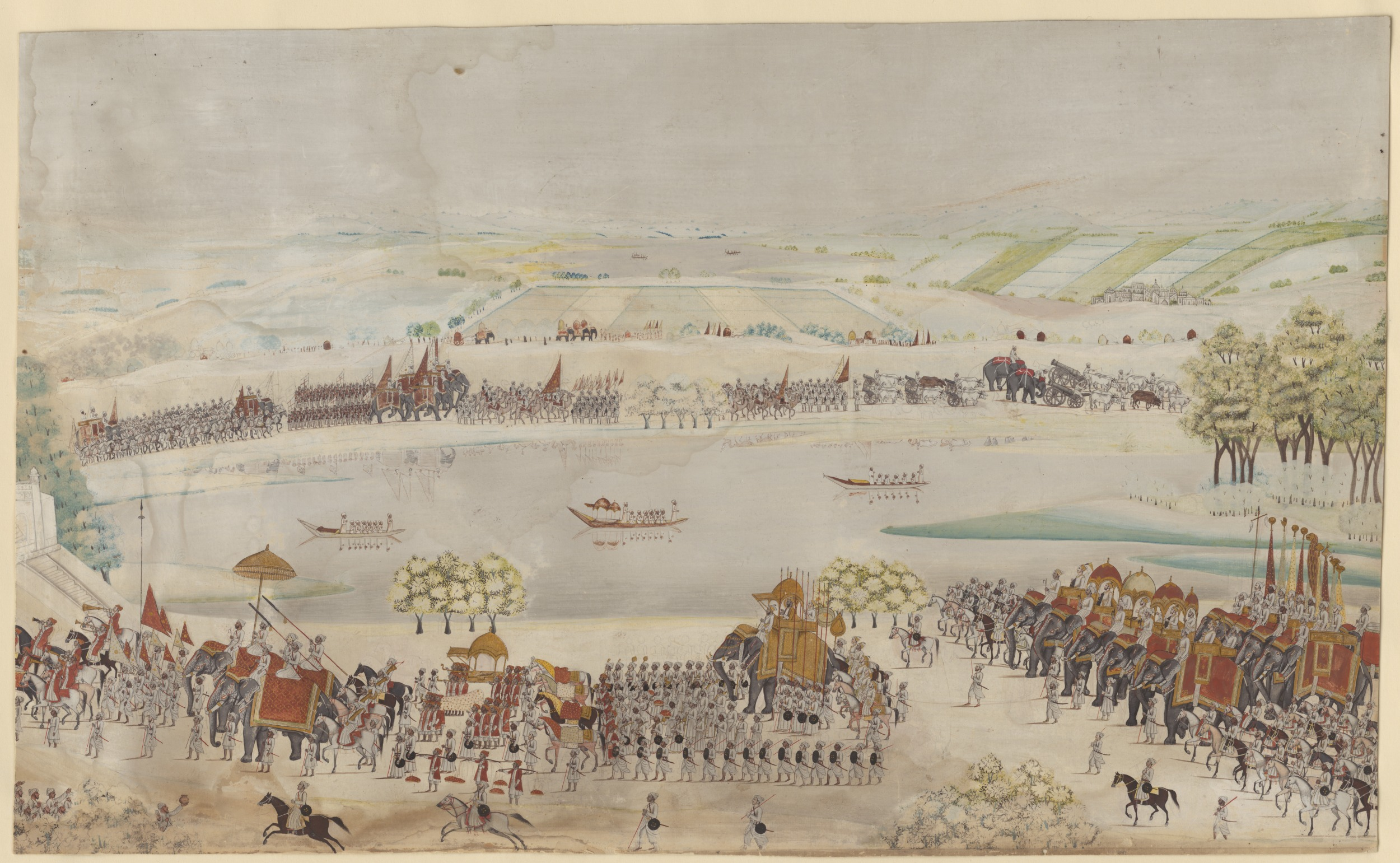 The royal procession of Shah Alam II with his army processing from right to left along the banks of a river.